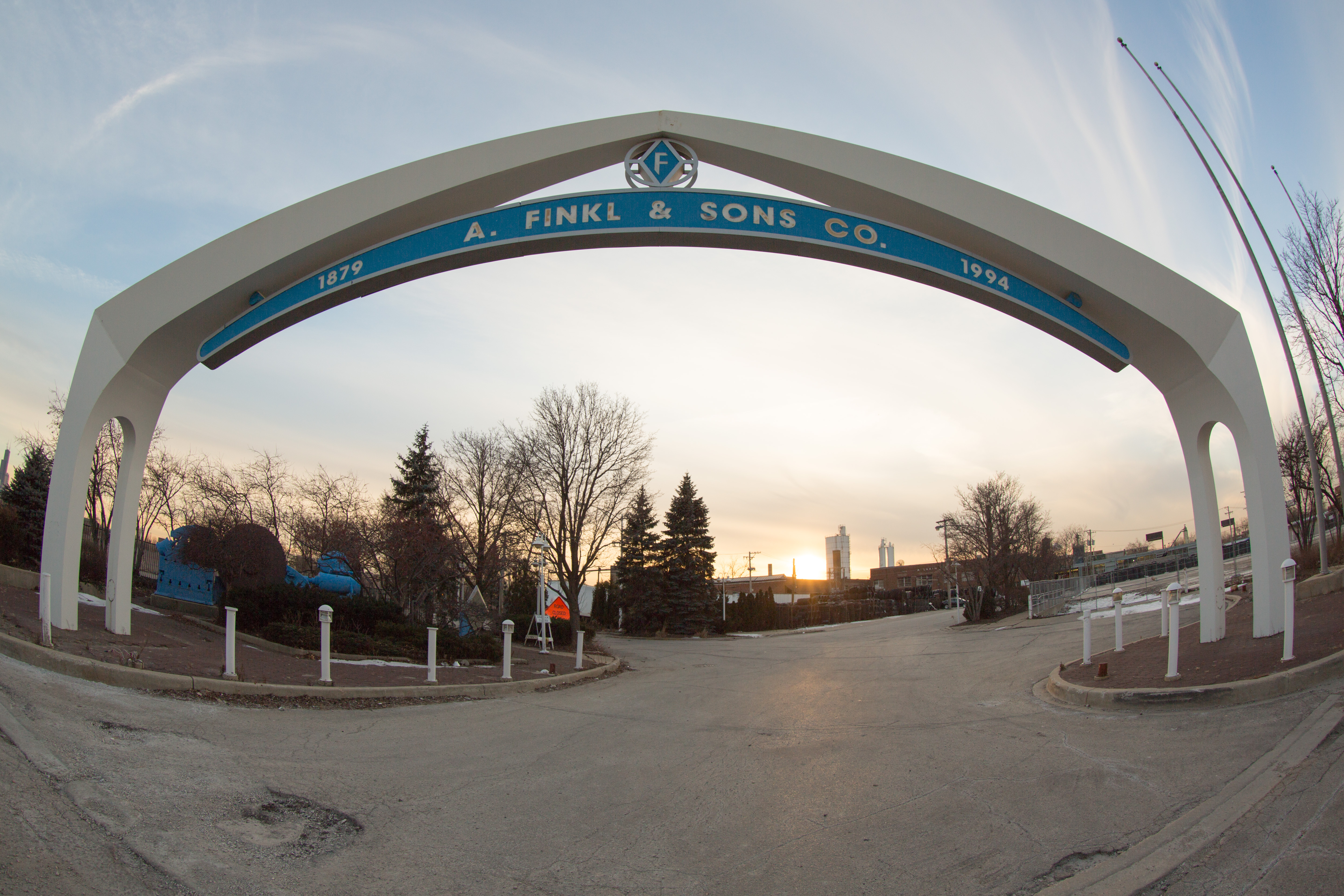 Finkl Factory